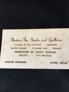 Business card for the Thirteen Ten Studio and Galleries